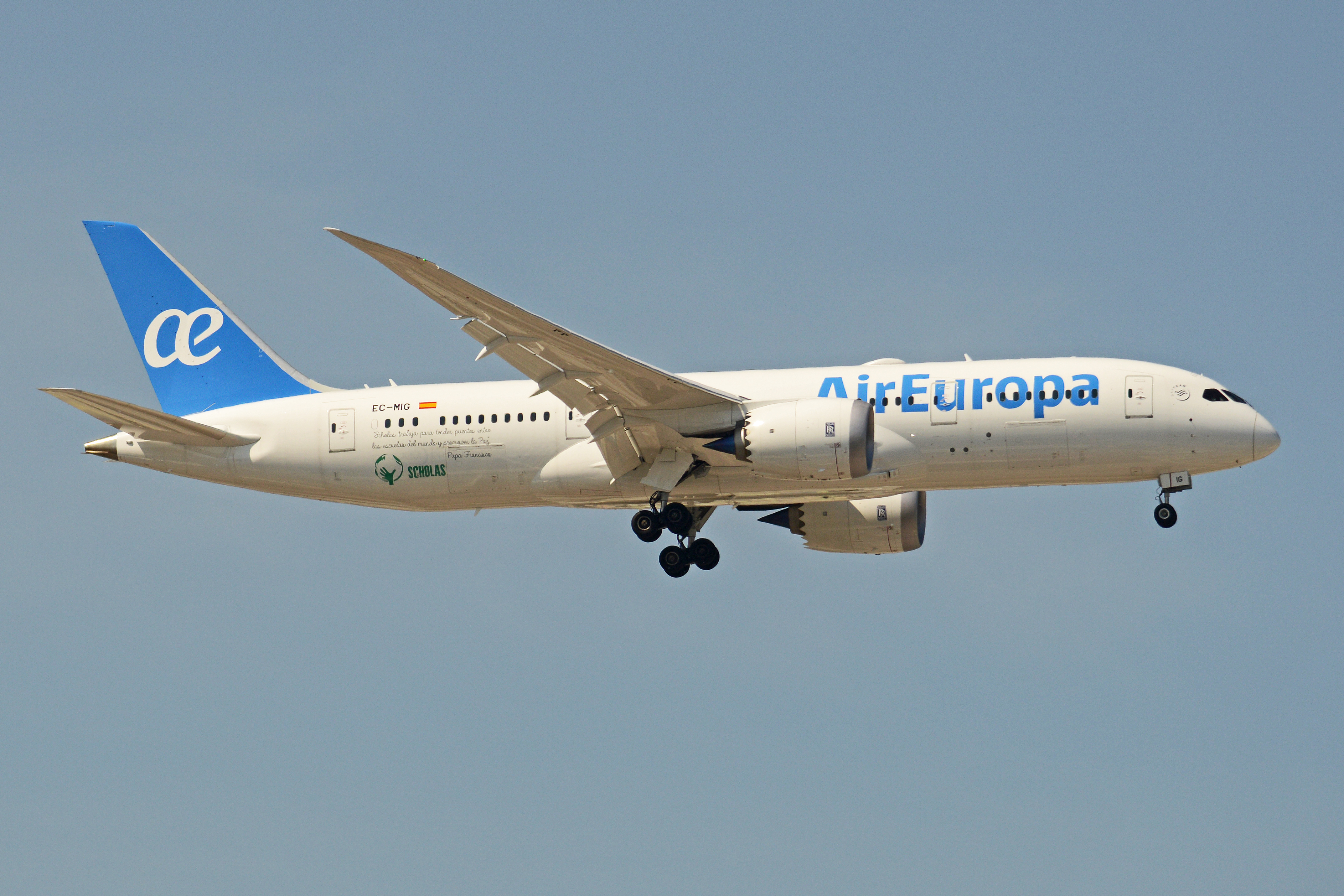 c/n 36412, l/n 397. Built 2016. Seen arriving on flight UX98 from Miami. Madrid-Barajas International Airport, Spain. 21-5-2016